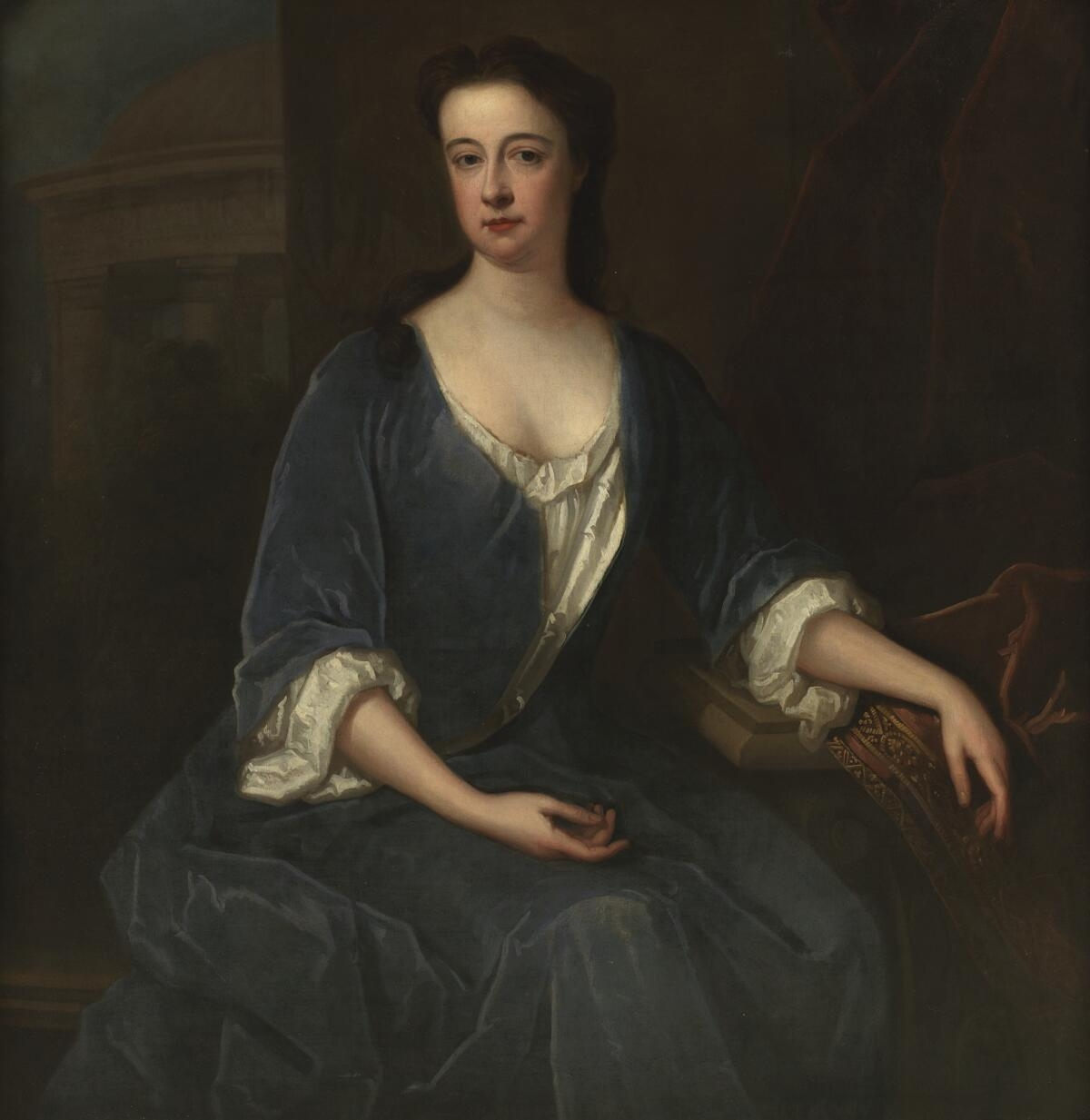 A painting from the Framed Works of Art collection at the National Library of wales.